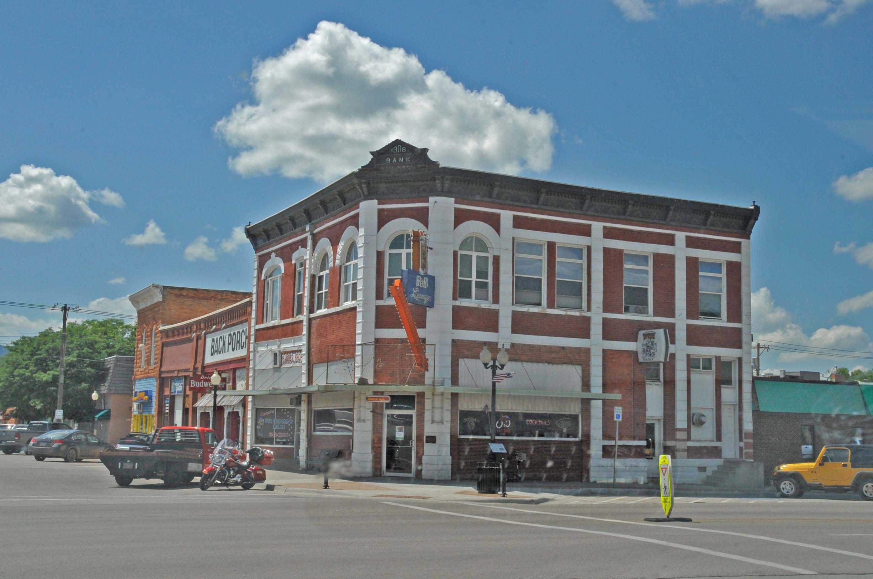 The American National Bank of Spearfish in South Dakota printed 66,700 dollars worth of national currency. A production number that low doesn’t save room for many survivors. Currency from this bank will be rare. This national bank opened in 1906 and stopped printing money in 1927, which equals a 22 year printing period. The bank is a unit in the historic district.